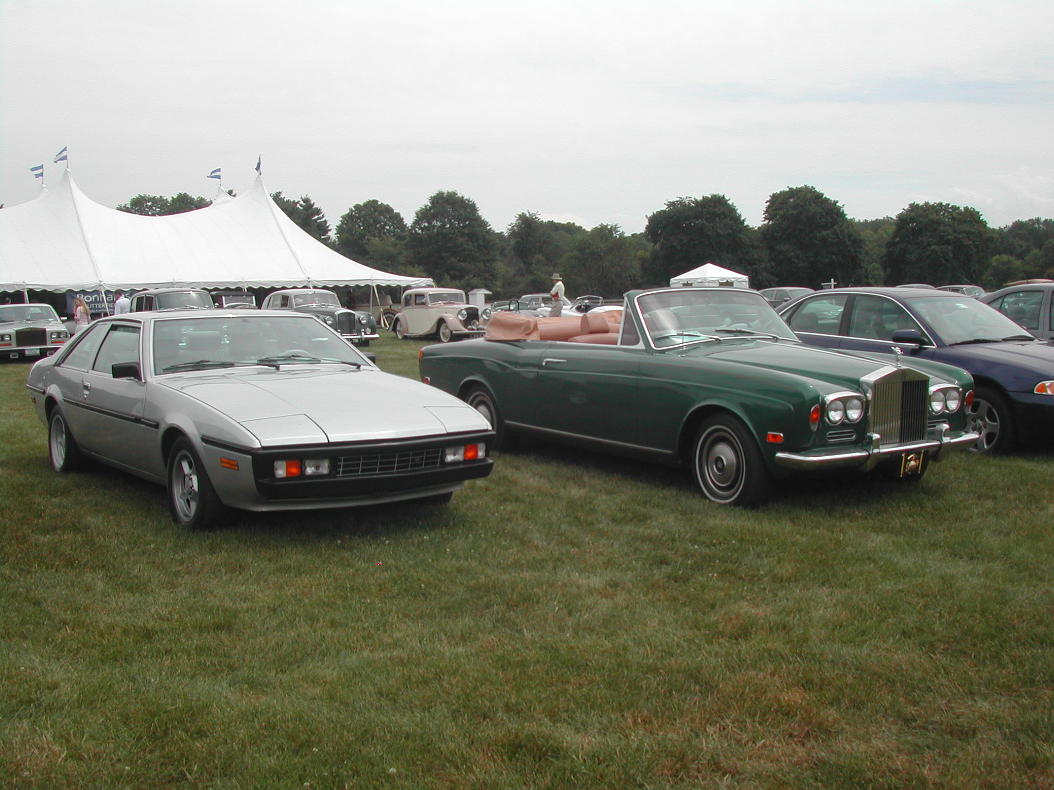 Bitter SC (left) and an early Rolls-Royce Corniche (right).